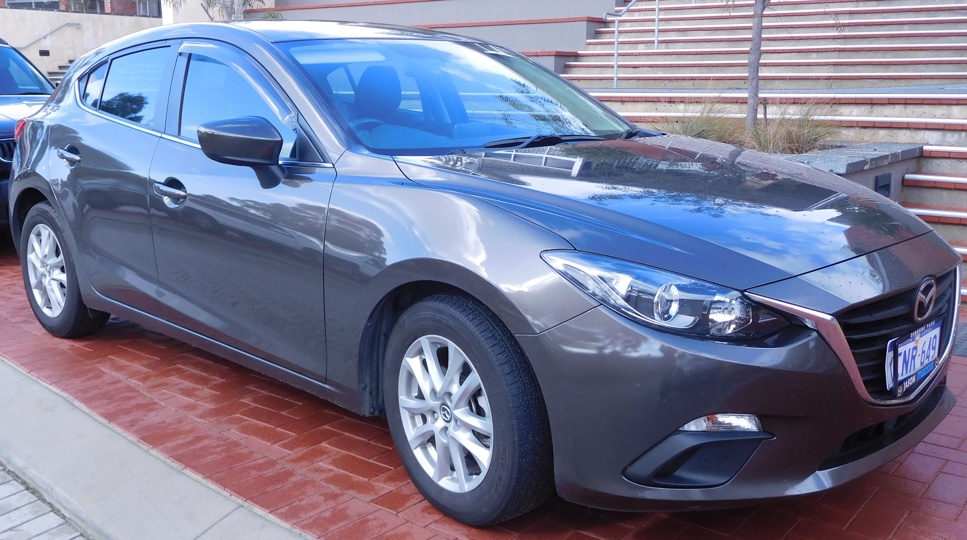 2014 Mazda3 (BM) Maxx hatchback. Photographed at Scotch College, Swanbourne, Western Australia Australia.